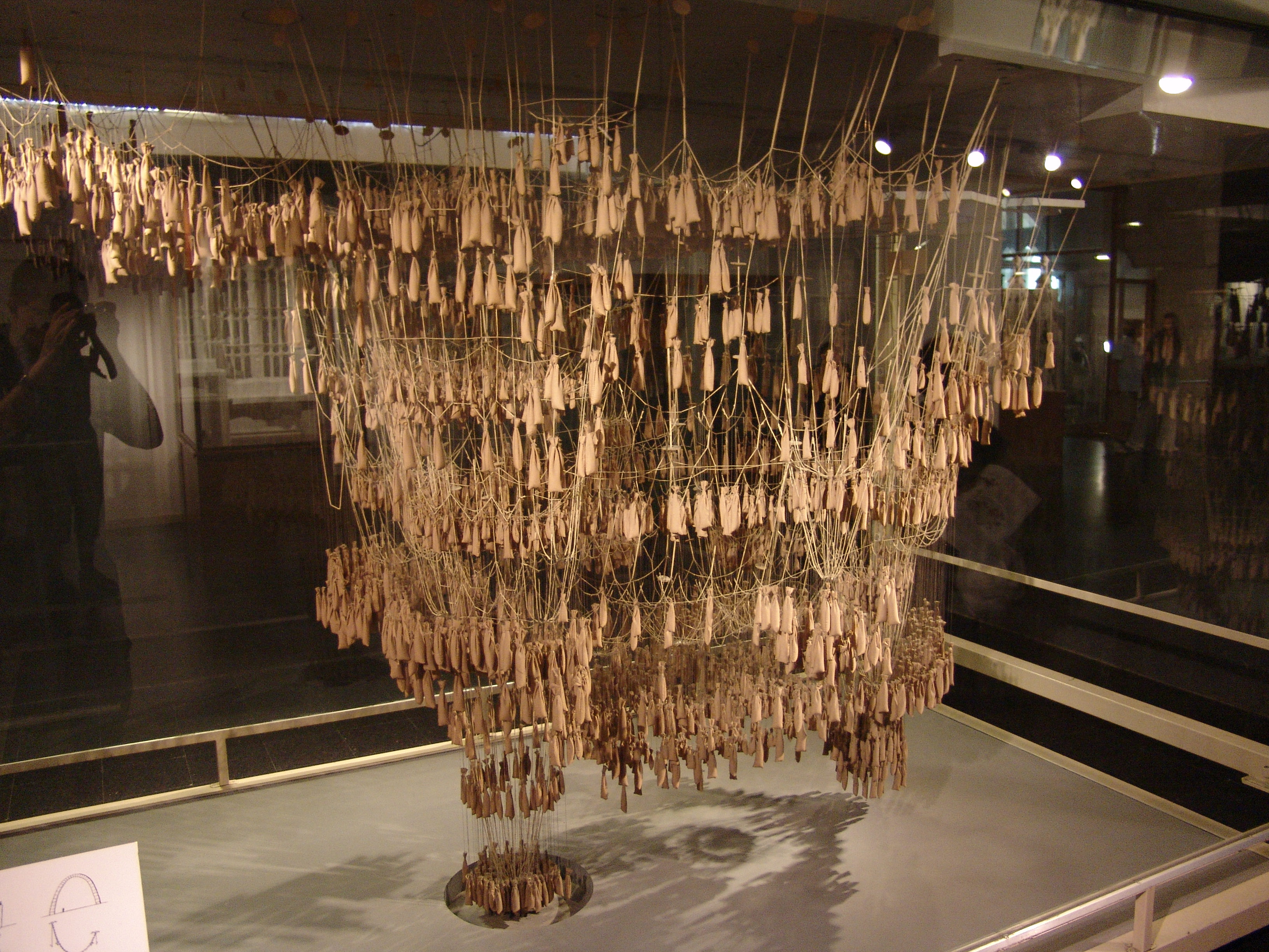 Statics model of the Sagrada Familia in Barcelona